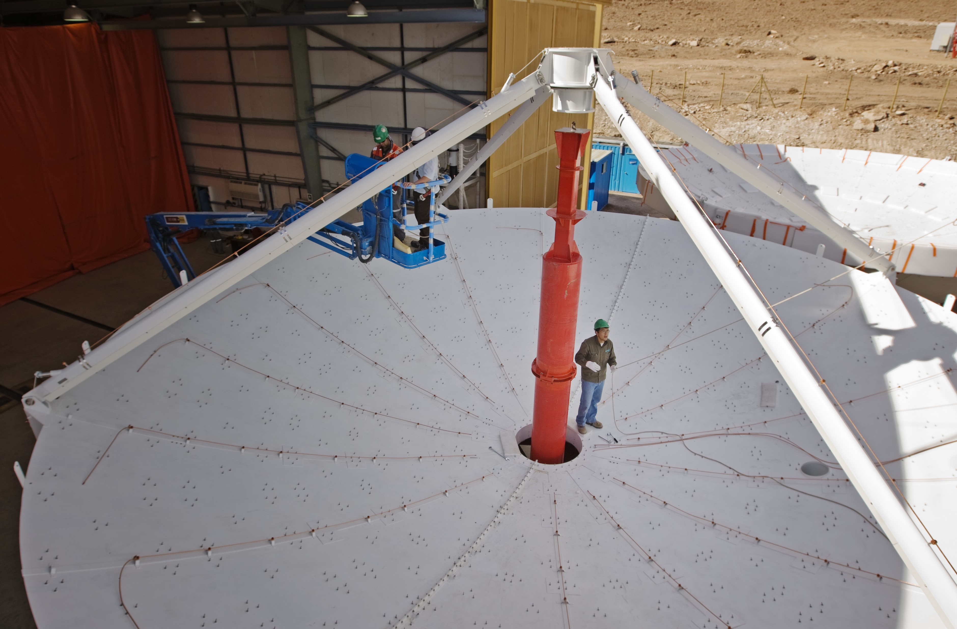 In this photograph a European ALMA antenna takes shape at the observatory's Operations Support Facility (OSF). ALMA, the Atacama Large Millimetre/sub-millimetre Array, is a revolutionary astronomical telescope, comprising an array of 66 giant 12-metre and 7-metre diameter antennas observing at millimetre and sub-millimetre wavelengths. The telescope is being built on the breathtaking location of the Chajnantor plateau, at 5000 metres altitude in the Chilean Andes. The OSF, at which the antennas are being assembled and tested, is at an altitude of 2900 metres.